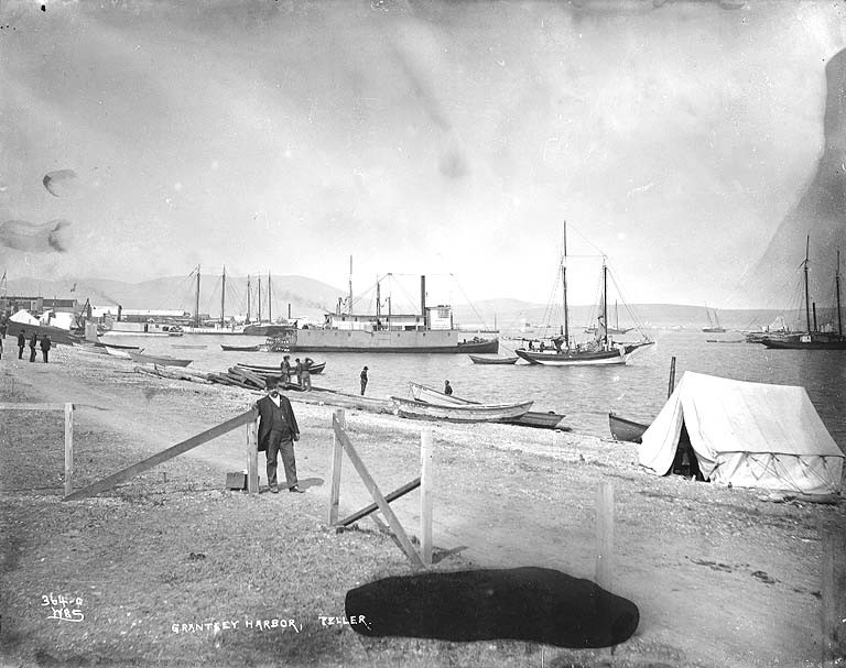 Caption on image: "Grantley Harbor, Teller" Original image in Hegg Album 31, page 6 . Original photograph by Eric A. Hegg 1859; copied by Webster and Stevens 364.A Subjects (LCTGM): Harbors--Alaska--Teller; Beaches--Alaska--Teller; Ships--Alaska-Teller; Sailboats--Alaska--Teller; Tents--Alaska--Teller Subjects (LCSH): Grantley Harbor (Teller, Alaska)